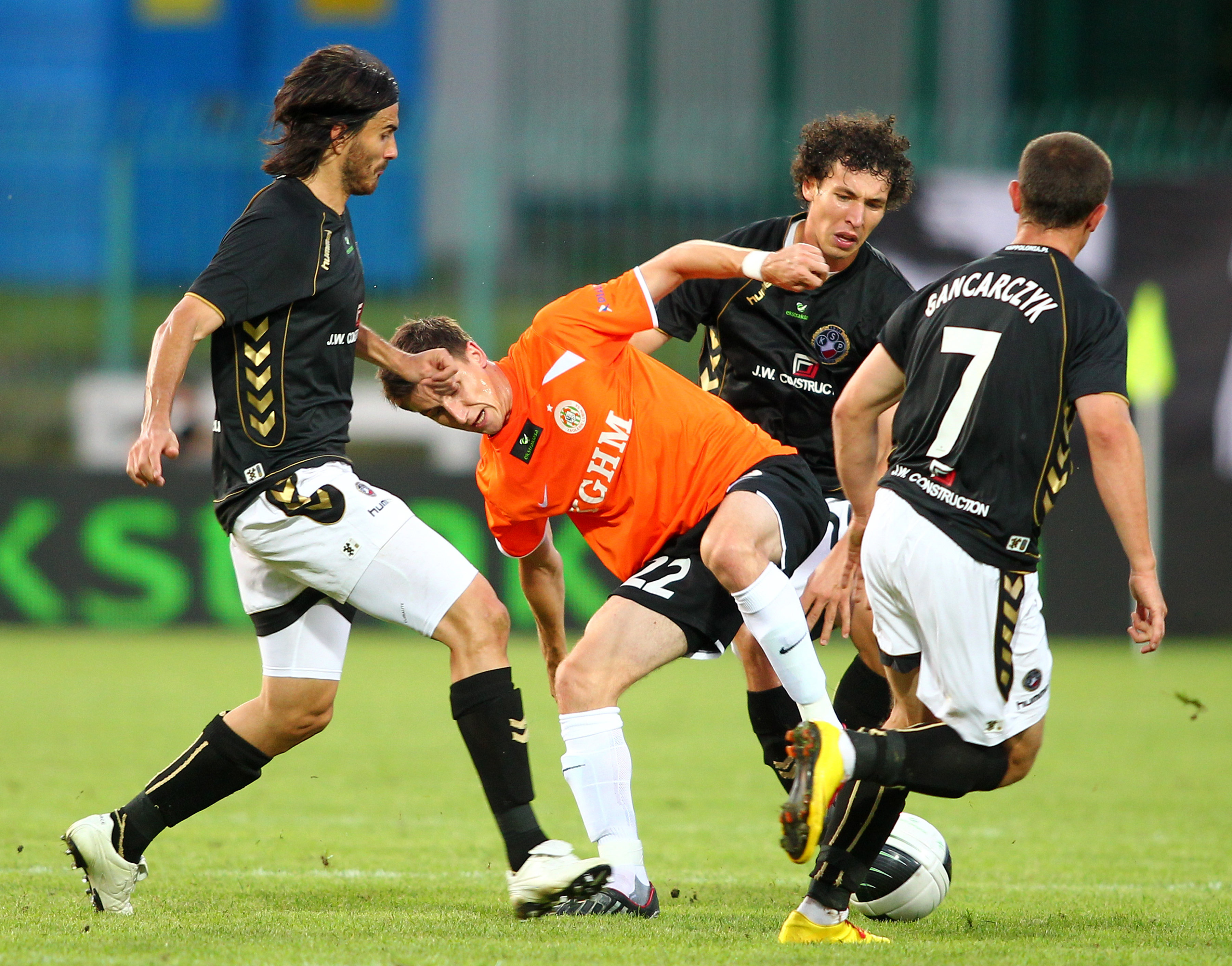 Bruno Coutinho Martins (left), Jakub Tosik (background) and Janusz Gancarczyk (right), all of Polonia Warszawa, put Amer Osmanagić (centre, no 22) of Zagłębie Lubin under pressure